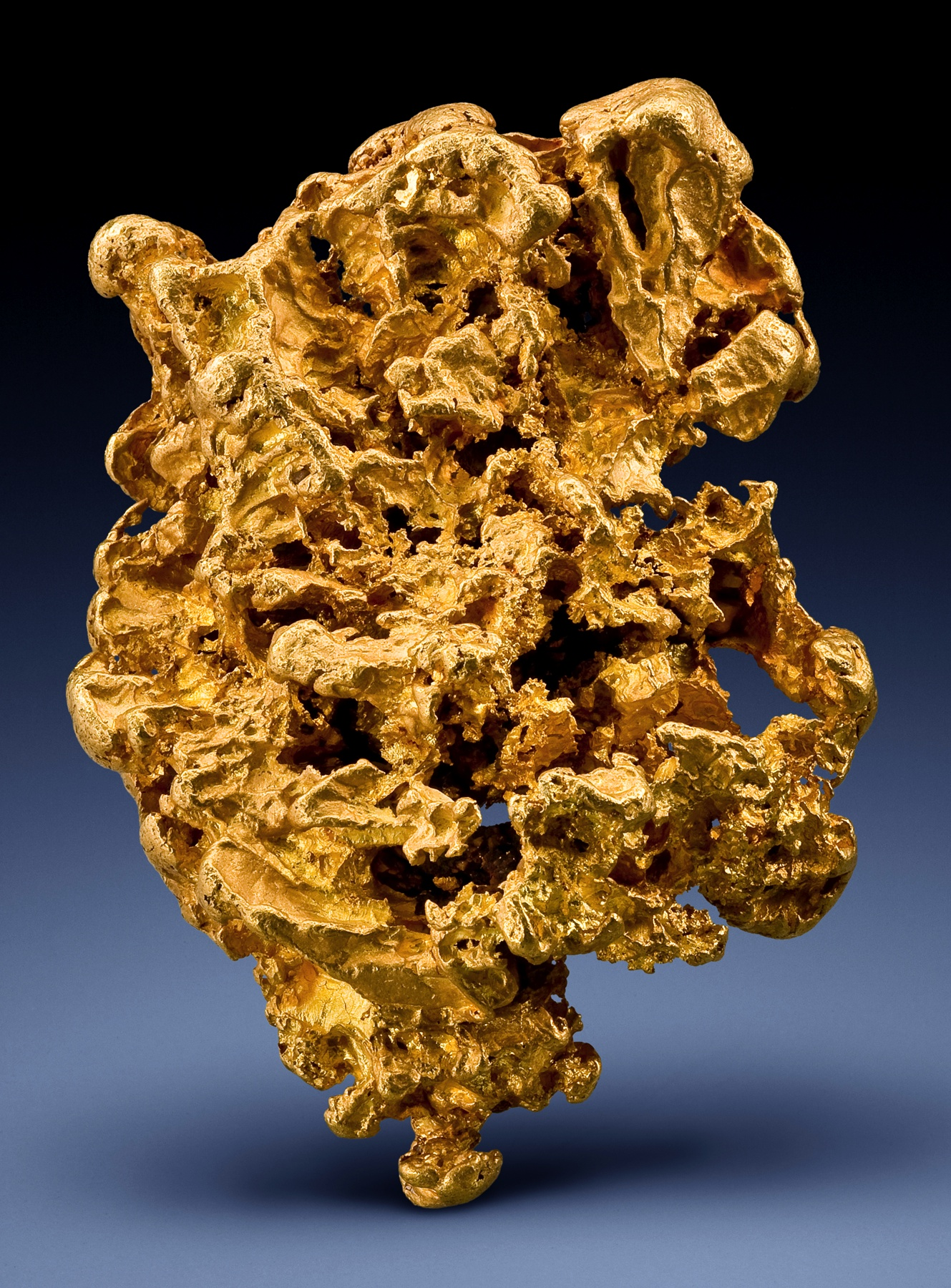 Gold Locality: Wychitella, Wedderburn, Victoria, Australia (Locality at ) Size: cabinet, 11.1 x 8 x 3.8 cm Gold (crystallized nugget) This is a CRYSTALLIZED gold nugget from Australia, a land where usually only rounded nuggets are found. I have seen MANY Aussie nuggets over the several decades I have dealt in such things, but out of all of them perhaps this is the most interesting to my tastes, in a large size and high-weight class. It is 850 grams (about 30 troy ounces), and over 4 inches tall. It is a nugget, with all the heft and visual impact you would expect,; but it is also strangely organic and alive-looking to me. It is a complex cluster of random rounded nugget gold intermixed with the occasional offshoot of crystalline gold - especially around the top of the specimen where you can clearly see a large, hoppered octohedral crystal sticking straight up. This is a very robust, 3-dimensional crystal, and it "makes the piece" , so to speak. The color is a unique brassy hue, characteristic of Wedderburn material I am told. This came into the US first through a prominent collector who had bought it from well known gold dealer Anthony Fraser, in the early 2000's. I have now owned it twice, happily able to exchange it back about a year ago. I have not raised the price with regard to the intrinsic weight value of the specimen, compared to the old price plus a bit of reasonable appreciation I paid to get it back. In other words, if you value the weight content highly, this piece has it. But as a specimen, it does stand on its own merits at a multiple of spot that used to be 3-4X and is now not even 2X spot.